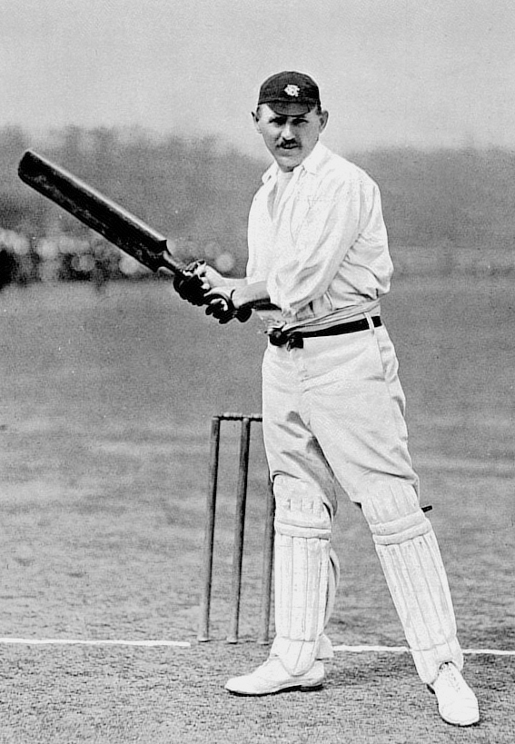 Sport, Cricket, Circa 1900, Arthur Shrewsbury, Nottinghamshire, (1875-1902) and England (1881-1893)